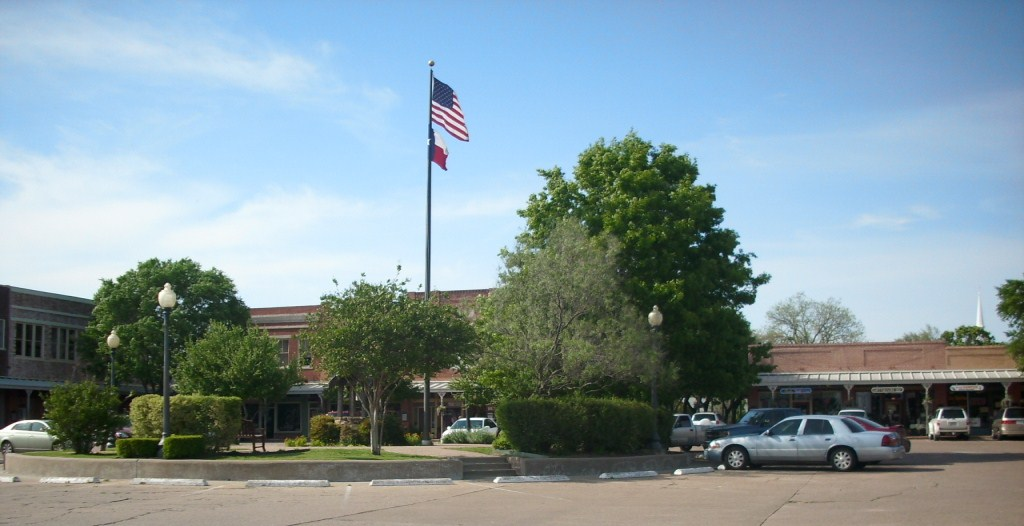 Historic Town Square in Lancaster, Texas (USA). Taken by User:Acntx on April 23, 2009.